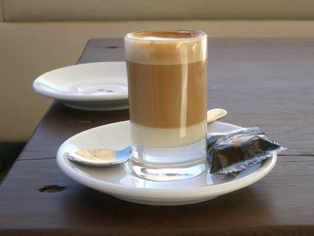 Café cortado leche y leche. The sweet milk settles down after adding, coffee with hot milk on top.